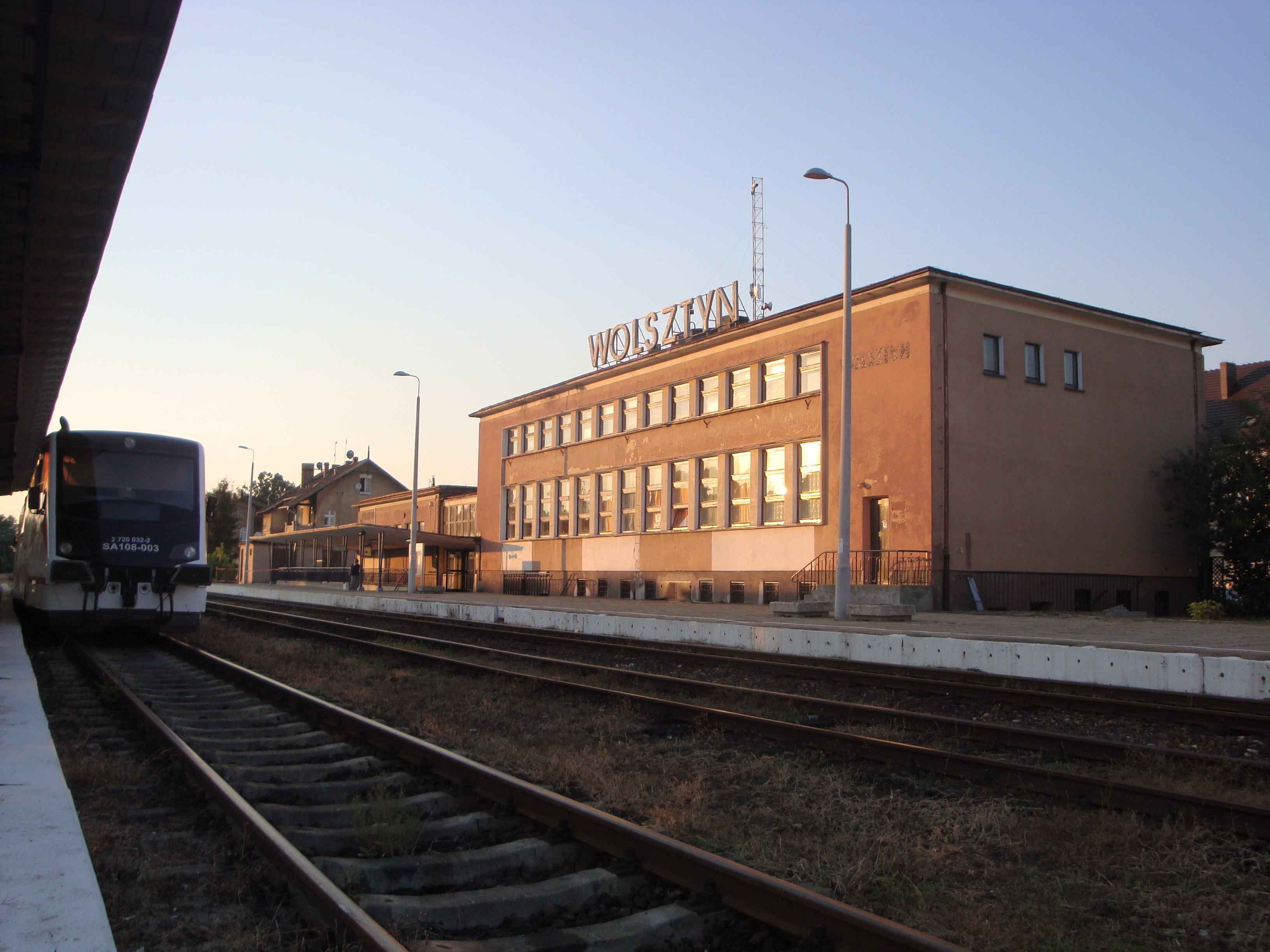 Dworzec kolejowy w Wolsztynie. This photo was taken during Railway Wikiexpedition 2013 set up by Wikimedia Polska Association. You can see all photographs in category Wikiekspedycja kolejowa 2013. English | Polski | +/−